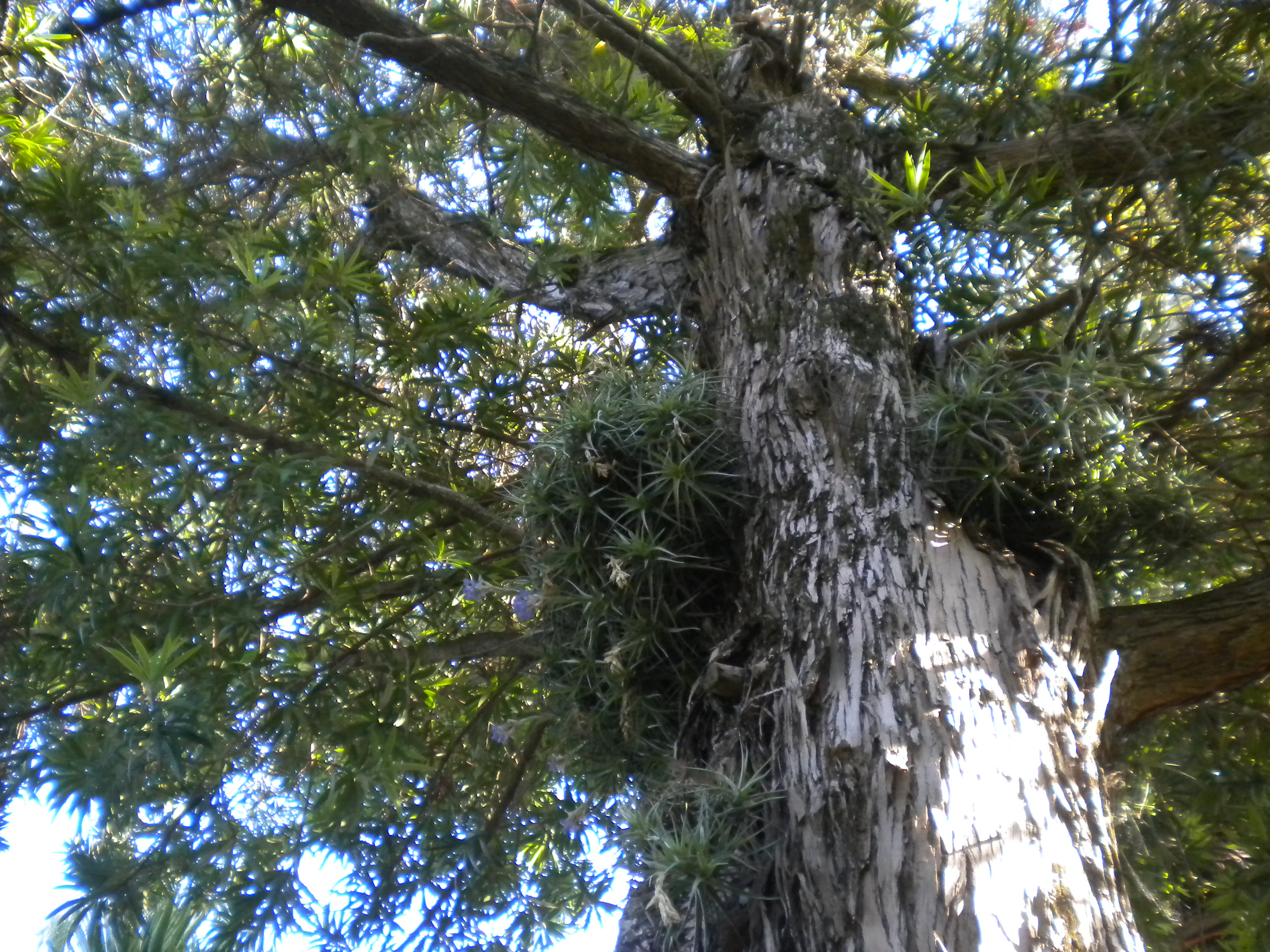 Podocarpus neriifolius in Marimurtra botanical garden, in Blanes (Catalonia).